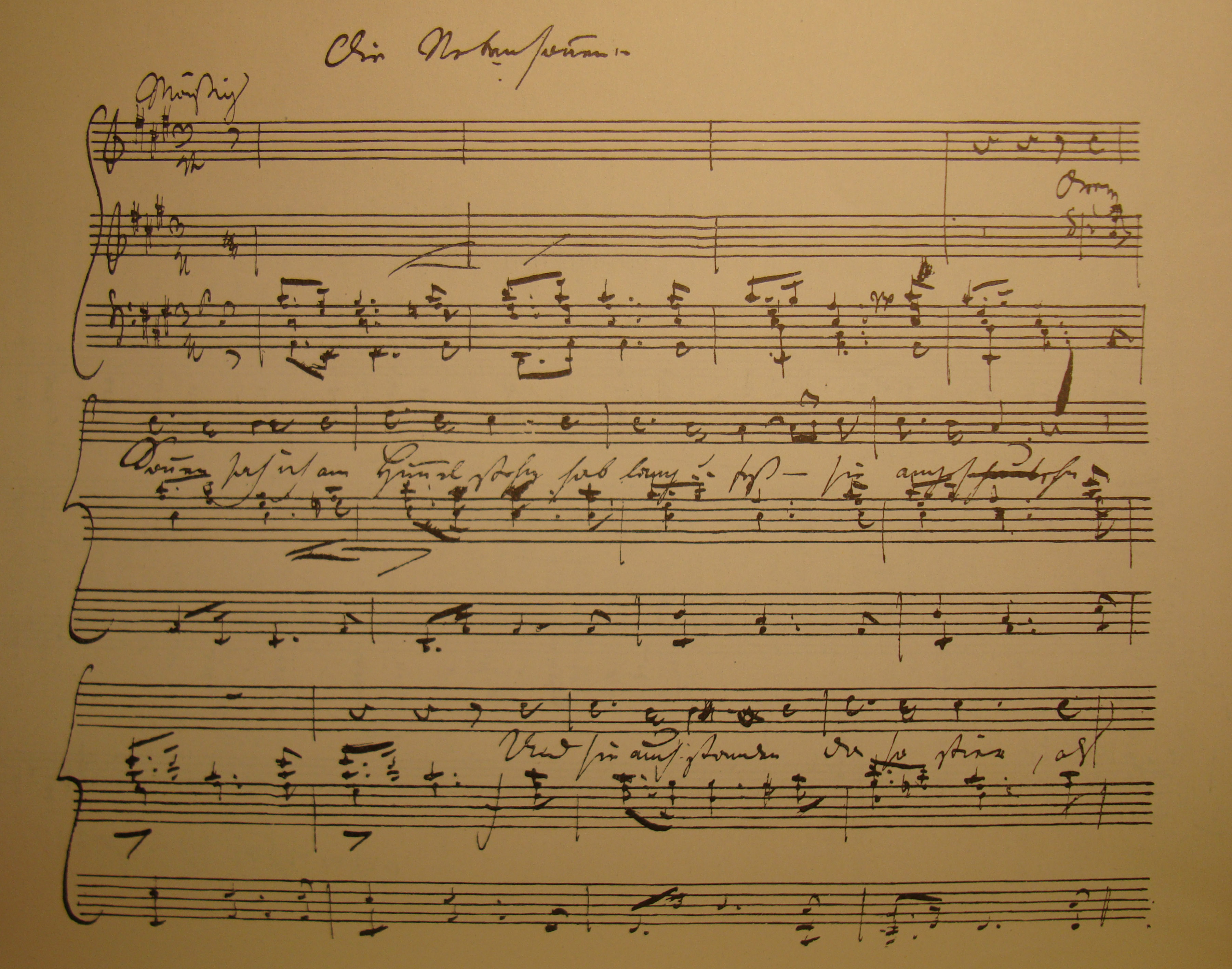 Nebensonnen D.911